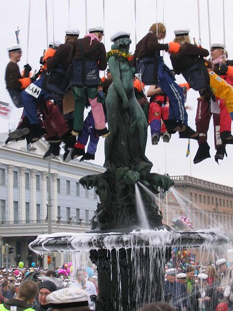 Havis Amanda statue in Helsinki, Finland gets her student cap on "vappu" eve (30th of April)